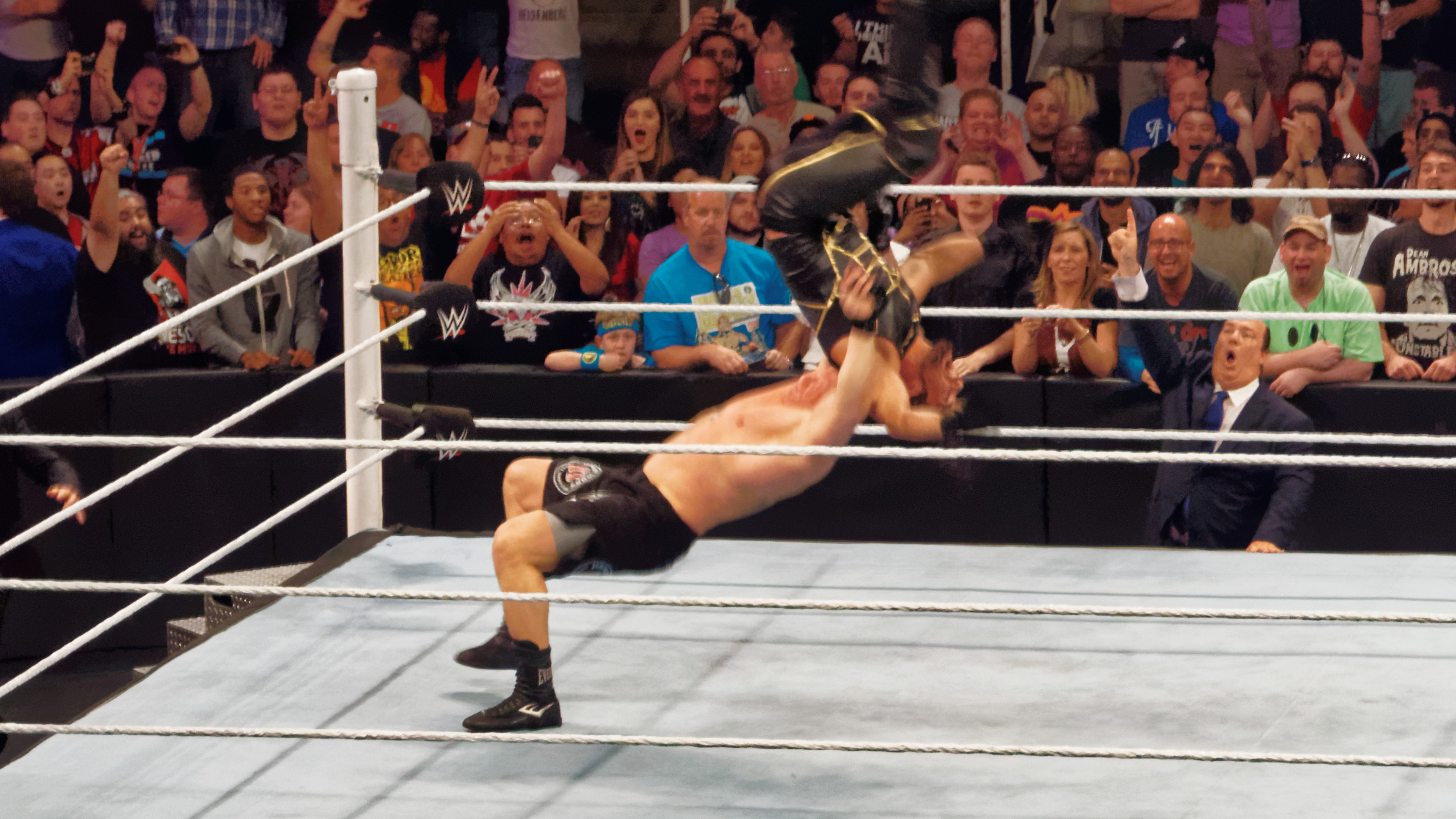 Brock Lesnar applying a German Suplex on Seth Rollins.